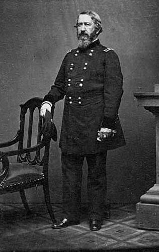 Brigadier General Andrew Porter, ca. 1862 Taken by Mathew Brady (1823-1896)